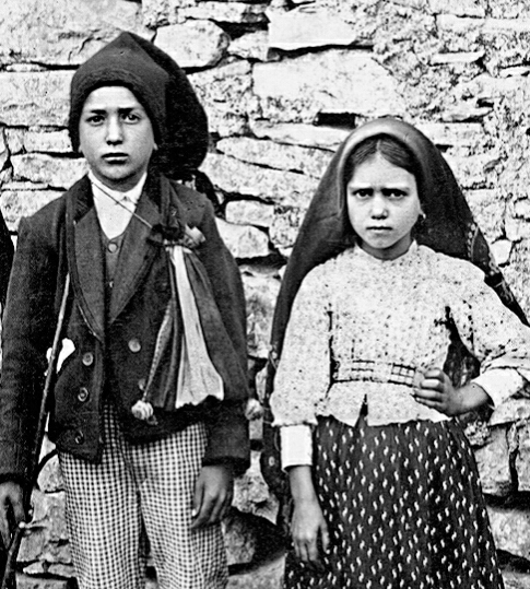 Jacinta and Francisco Marto, two of the three children whom the Virgin Mary revealed her famous "three secrets" in Fátima, Portugal.